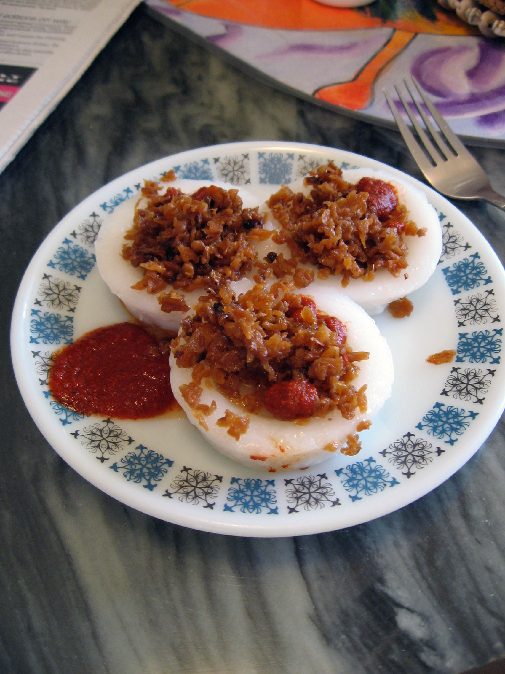 Chwee Kueh is a Singaporean breakfast dish. It consists of a steamed rice cakes (made from rice flour and water), topped with preserved radish. As weird as it looks, it's actually a very tasty dish. The contrast of the slightly salty radish, hot chilli and the plain rice cake is just yummy.